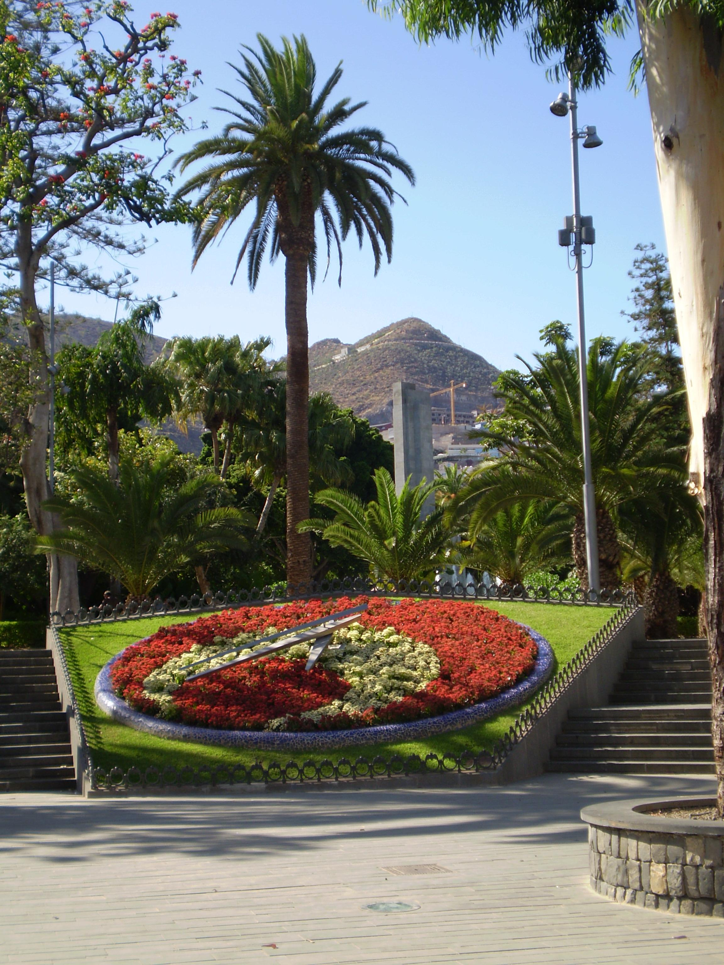 Flower clock, García Sanabria Park (Santa Cruz de Tenerife). Canary Islands, Spain.